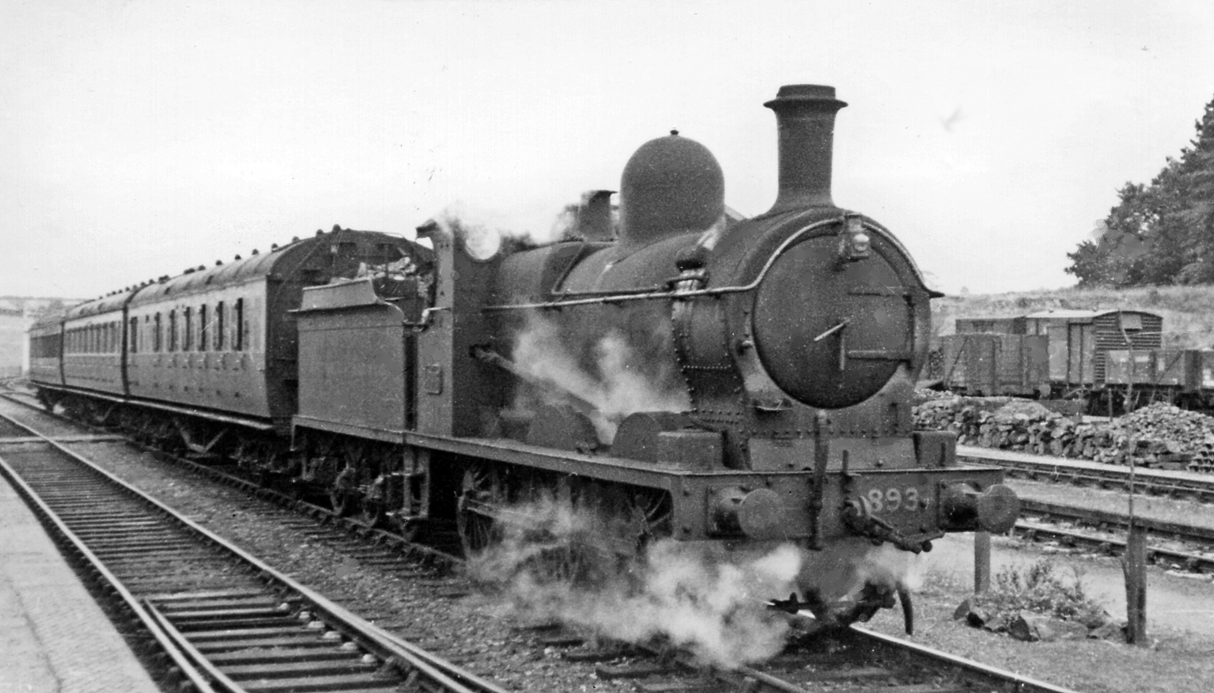 Local Mid-Wales line train at Rhayader station. View SW, towards Builth and Brecon: ex-Cambrian Railway Moat Lane Junction - Llanidloes - Builth Road - Three Cocks - Brecon line, closed 31/12/62. The Builth Road (Low Level) - Moat Lane train is headed by one of the few remaining ex-Cambrian Class 15 0-6-0s, No. 893 (built 3/08, withdrawn 2/53).